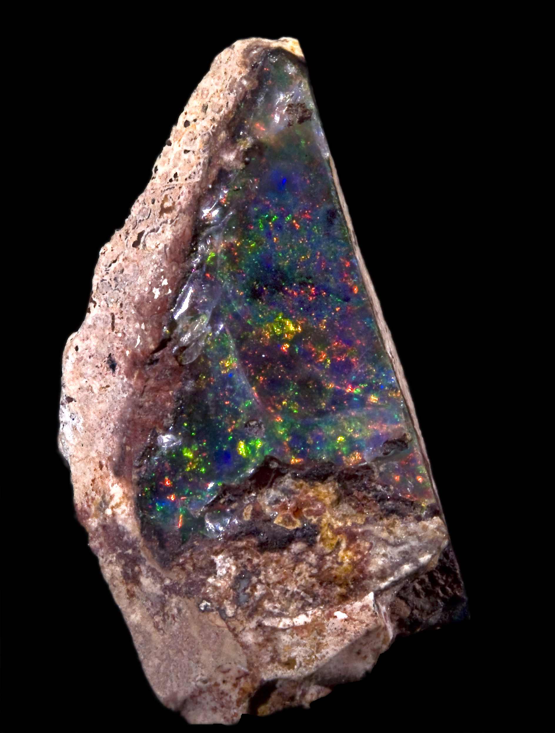 Opal-AG (Precious opal)- Carbonea Mine, La Trinidad, Mun. de Tequisquiapan, Queretaro, Mexico - (5x2.2cm)